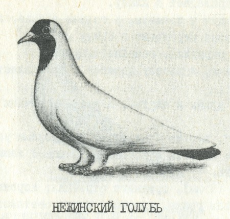 Нежинский чистый голубь